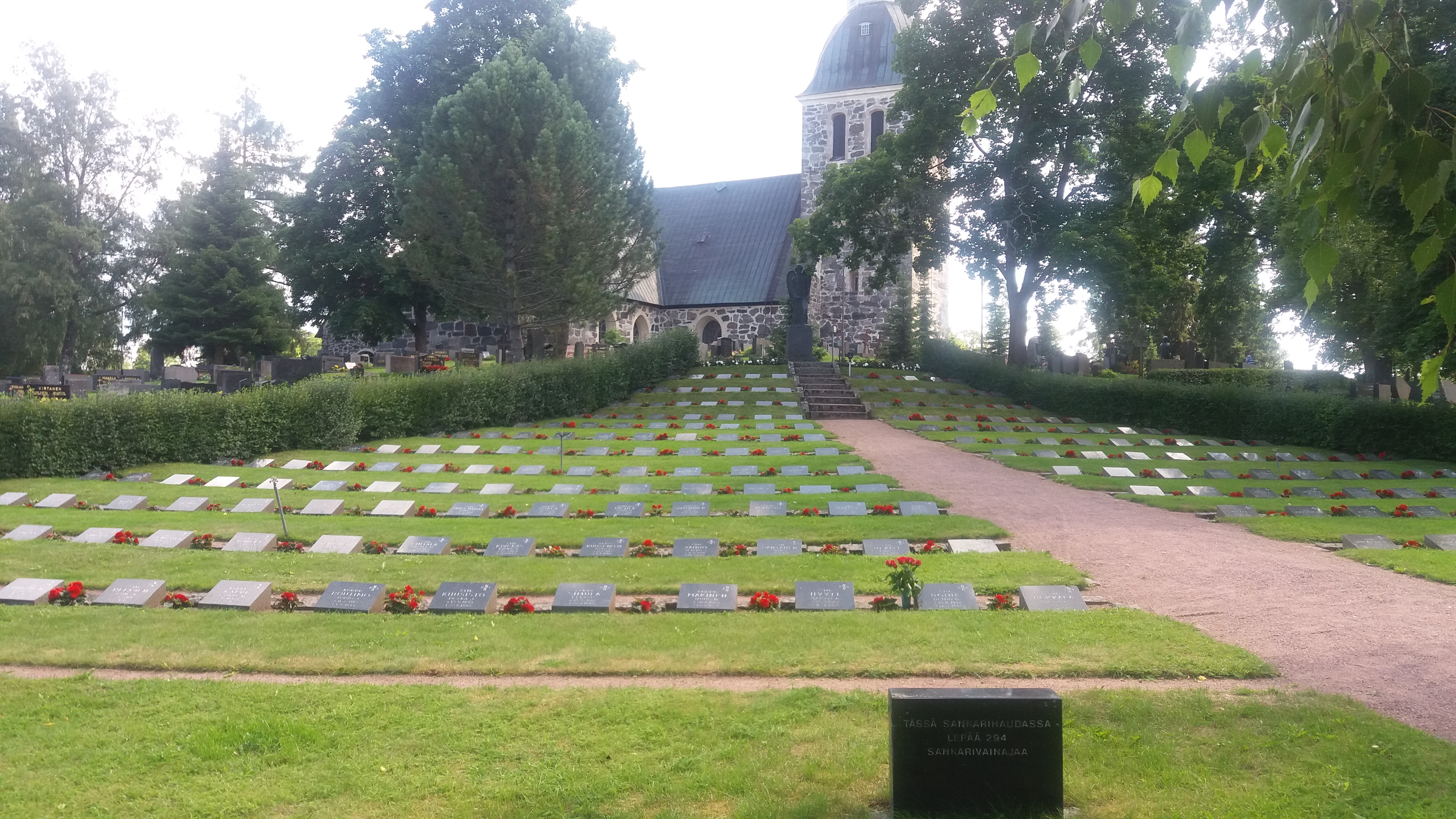 1939-1945 War Graves of the Huittinen Church, Finland.